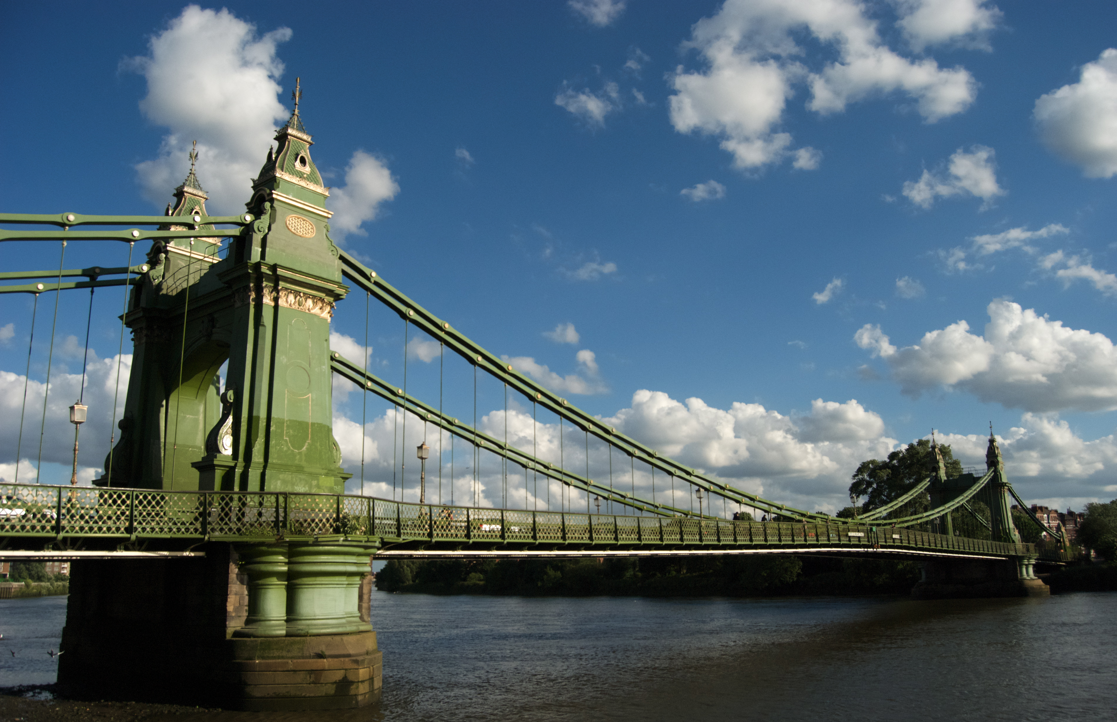 Hammersmith Bridge, taken from the Hammersmith side of the river